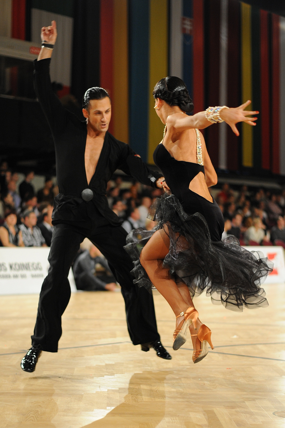 Austrian Open Championships Vienna, 2012 WDSF World Dancesport Championships Latin 16.-18. November 2012 The making of this work was supported by Wikimedia Austria. For other files made with the support of Wikimedia Austria, please see the category Supported by Wikimedia Österreich. Personality rights warning Although this work is freely licensed or in the public domain, the person(s) shown may have rights that legally restrict certain re-uses unless those depicted consent to such uses. In these cases, a model release or other evidence of consent could protect you from infringement claims.